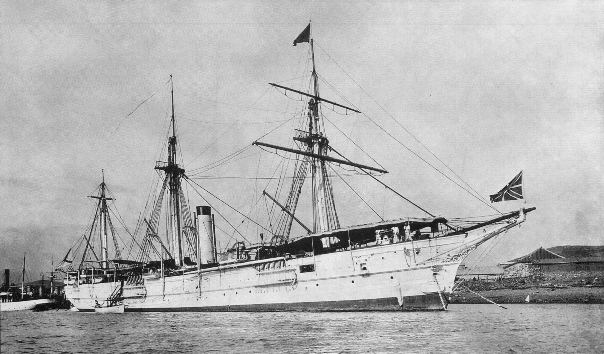 Imperial Russian clipper Razboynik.